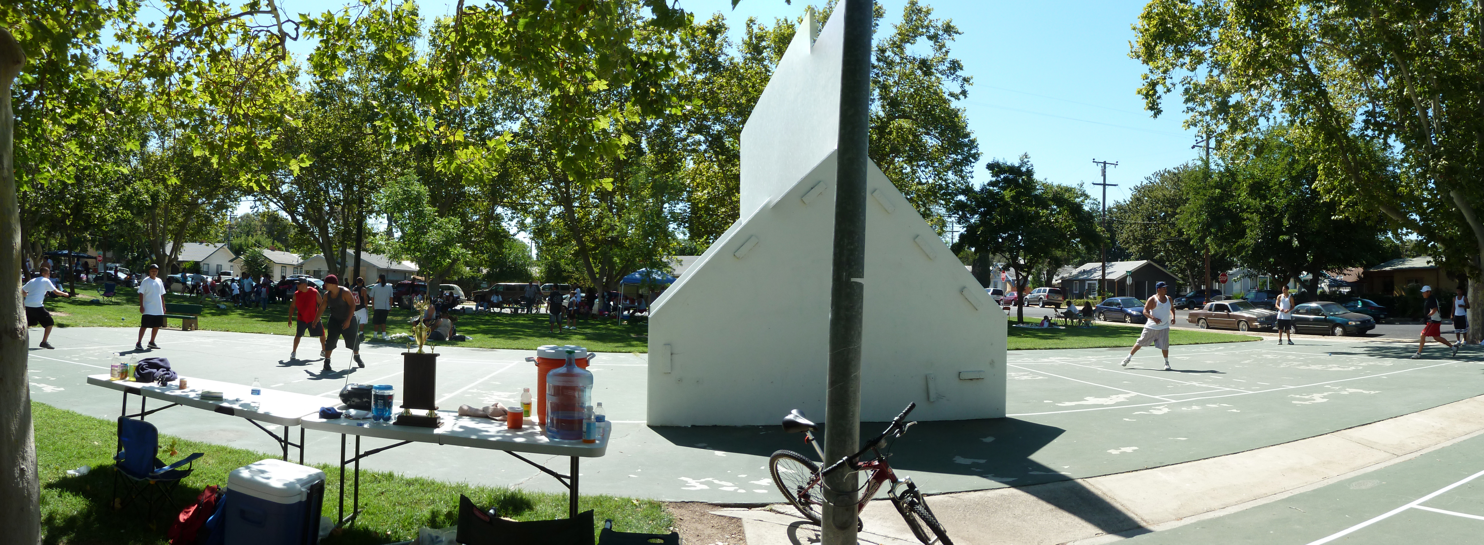 Panorama of a one wall handball court with two games in progress on both sides.